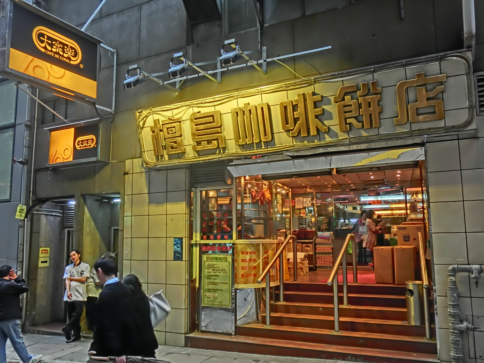 中環, 檀島咖啡餅店, Stanley Street 史丹利街, Central, Hong Kong